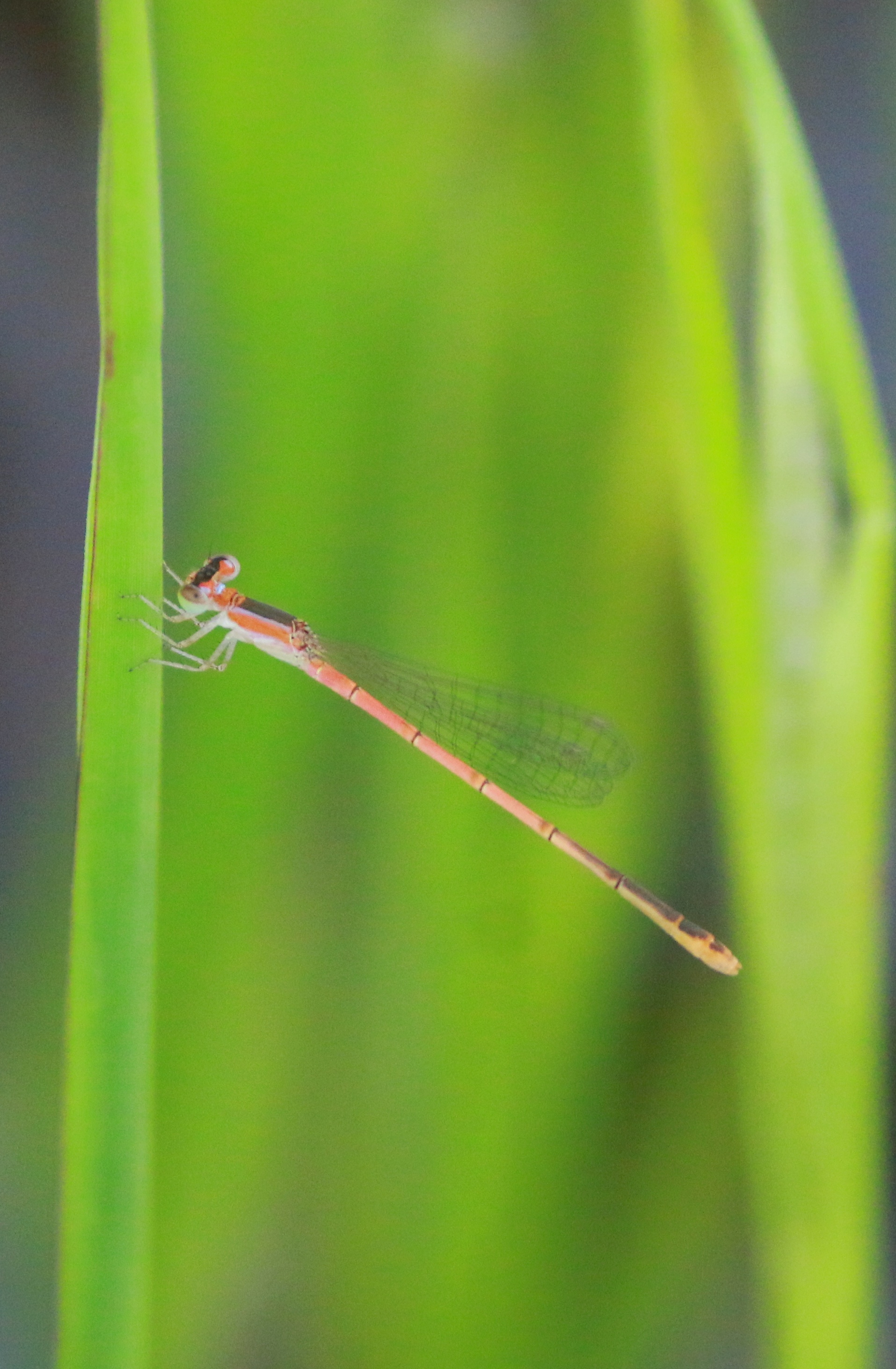 Agriocnemis pygmaea,Pigmy Dartlet female